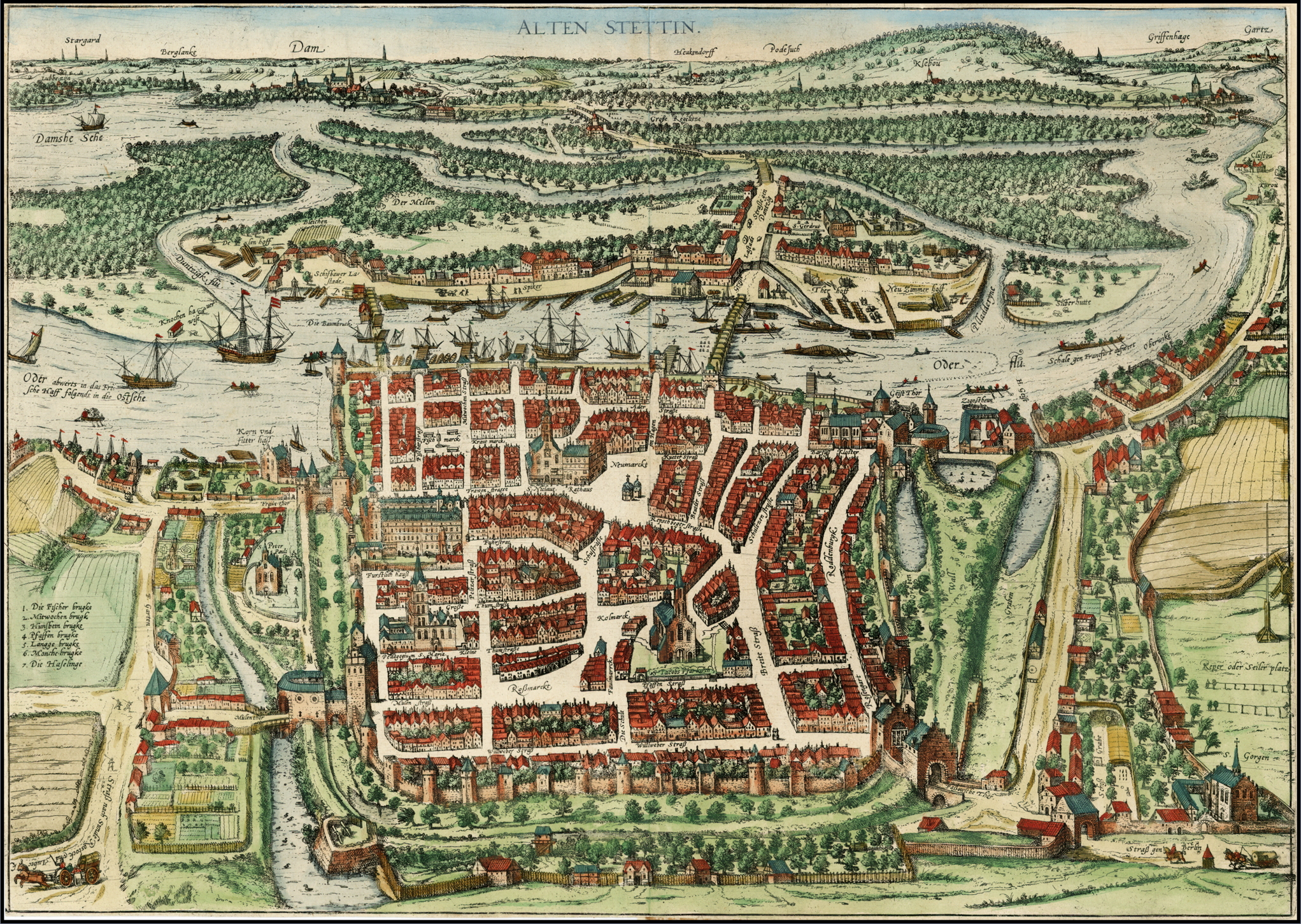 Szczecin, then Stettin, in the 16th century, colourated copper print